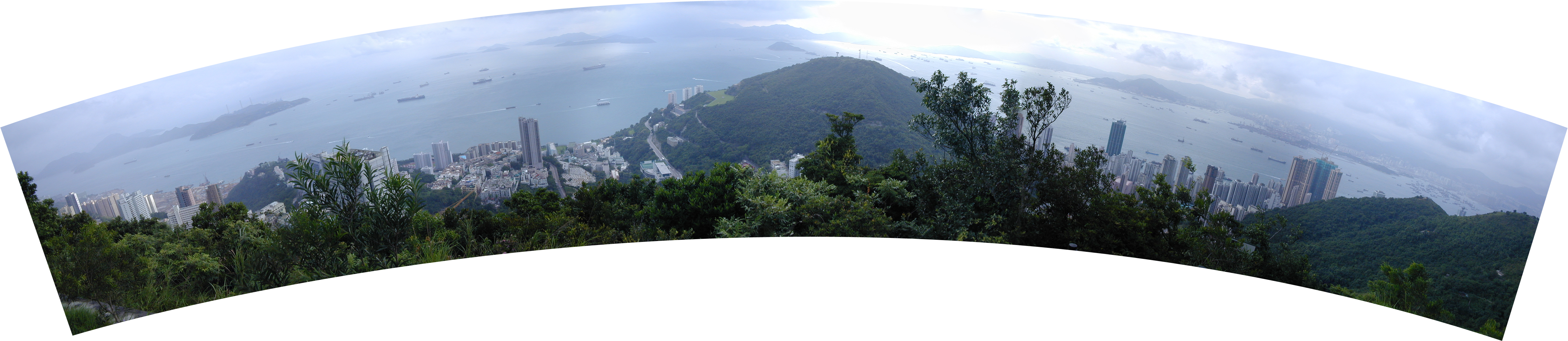 Photo of Lung Fu Shan View Compass, combined from 89179006, 89179031, 89179046, 89179062, 89179082, 89179099, 89179121, 89179136, 89179153, 89179062 and 89179153.